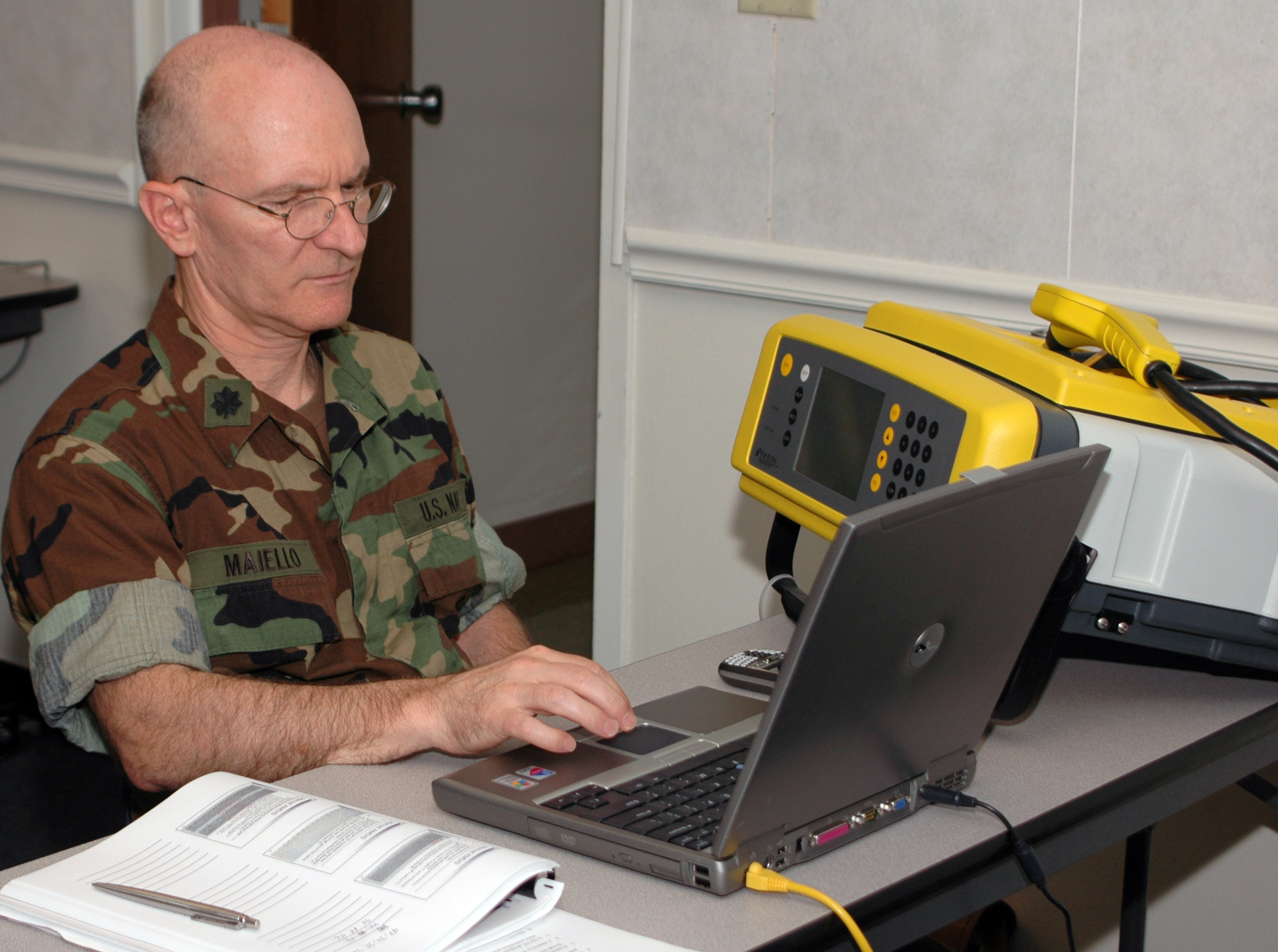 Norfolk, Va. (June 24, 2006) - Cmdr. Richard Maiello, an industrial hygienist attached to the Forward Deployed Preventive Medicine Unit Seven (FDPMU-7) conducts training on the Chemical Volatile Organic Compound Unit, which is used to screen soil, water, and air for the detection of toxic materials such as chemical, biological, and radiological agents. U.S. Navy photo by Photographer's Mate 2nd Class Steven P. Smith (RELEASED)